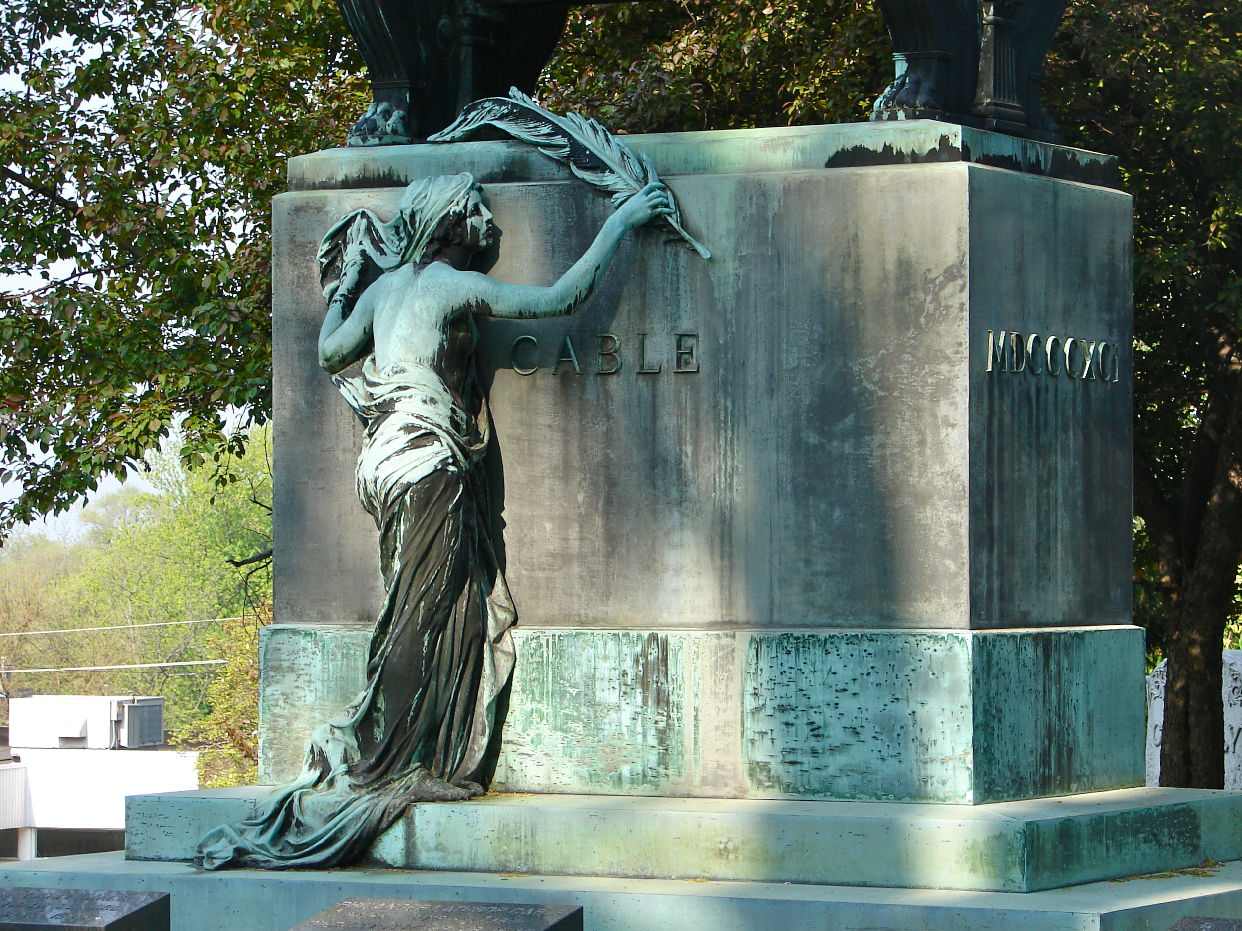 The Cable Monument in Chippiannock Cemetery by Paul De Vigne on the NRHP since May 6, 1994. At 2901 Twelfth St., Rock Island, Rock Island County, Illinois. Almerin Hotchkiss patterned his design on the Rural Cemetery style of Mt. Auburn Cemetery in Massachusetts. It also contains monuments by Alexander Stirling Calder and Paul de Vigne.